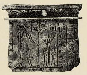 Pectoral of Wasakawasa, son of the High Priest of Amun Iuwelot, dedicated to Thot of Hermopolis. Electrum (H 4 cm, W 3,8 cm) unknown provenience, 22nd dynasty, Third Intermediate Period. Petrie Museum, UC13124.